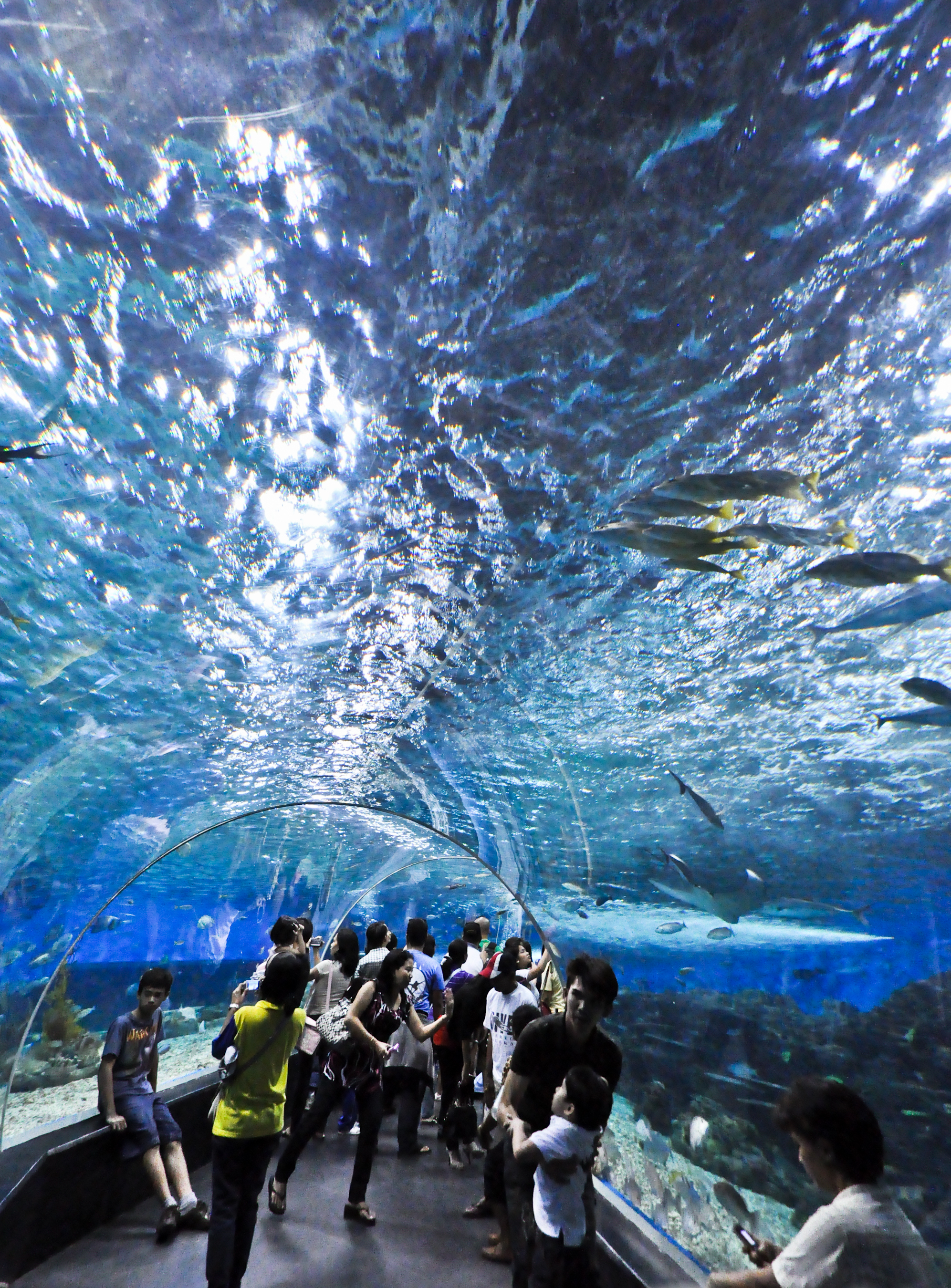 Oceania at Manila Ocean Park